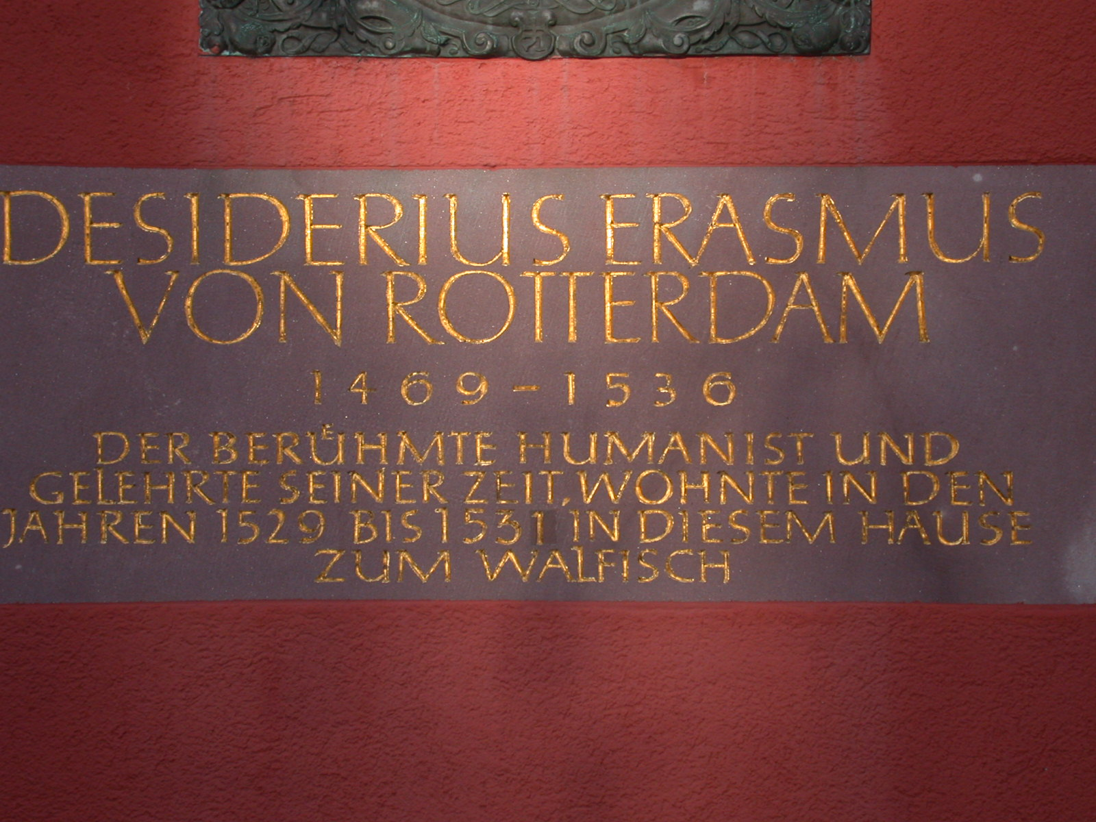 Erasmus in Freiburg - Comemorative shield Source: Photo taken by myself: User:mschlindwein